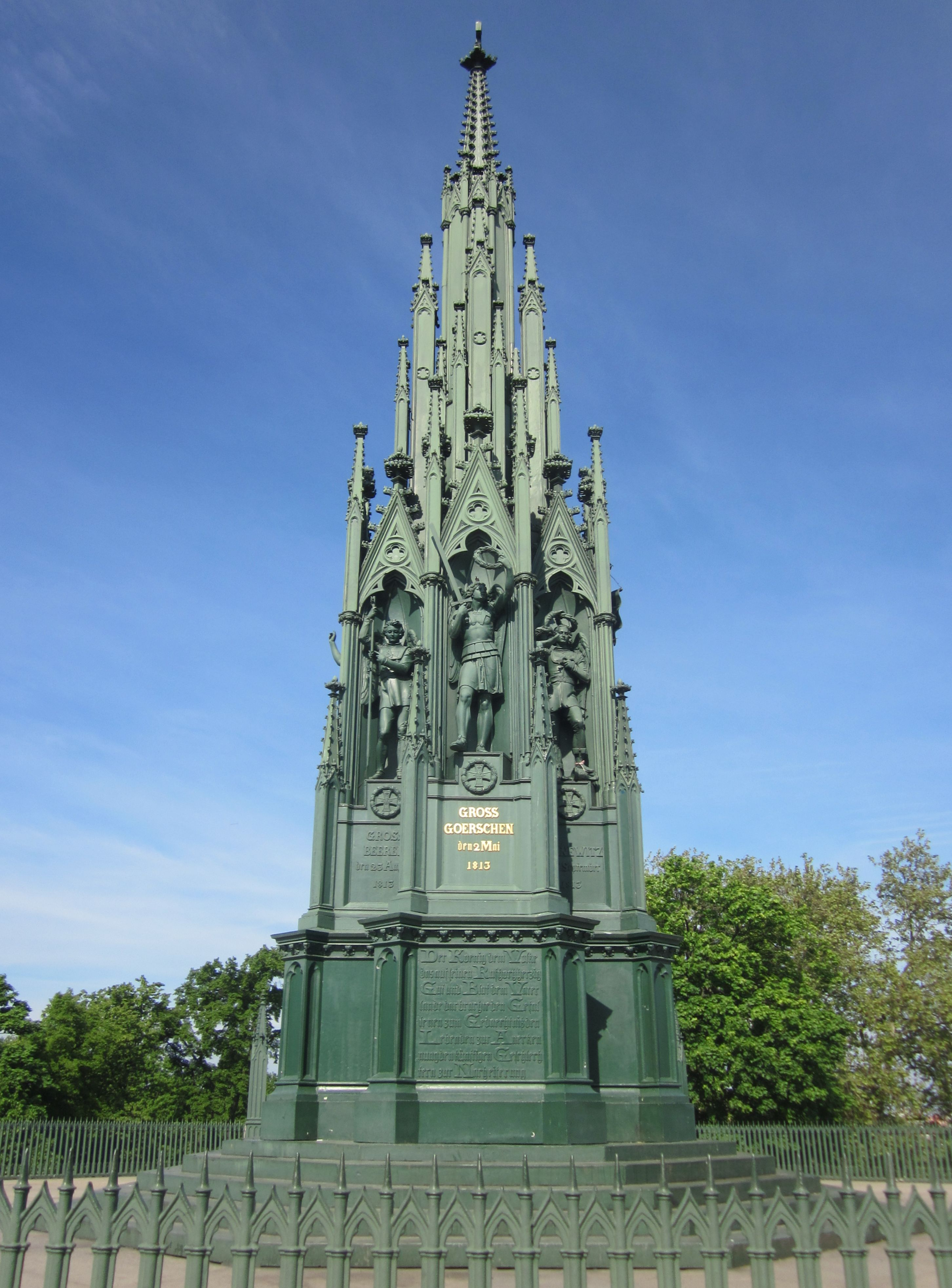 The National Monument for the Liberation Wars against Napoleon on the Kreuzberg at the Viktoriapark in Berlin-Kreuzberg, hear the Eastern side commemorating the battles of Groß-Görschen, Großbeeren, and Dennewitz. The memorial was created from 1818 to 1821 by Karl Friedrich Schinkel. It has been designated as a cultural heritage monument.